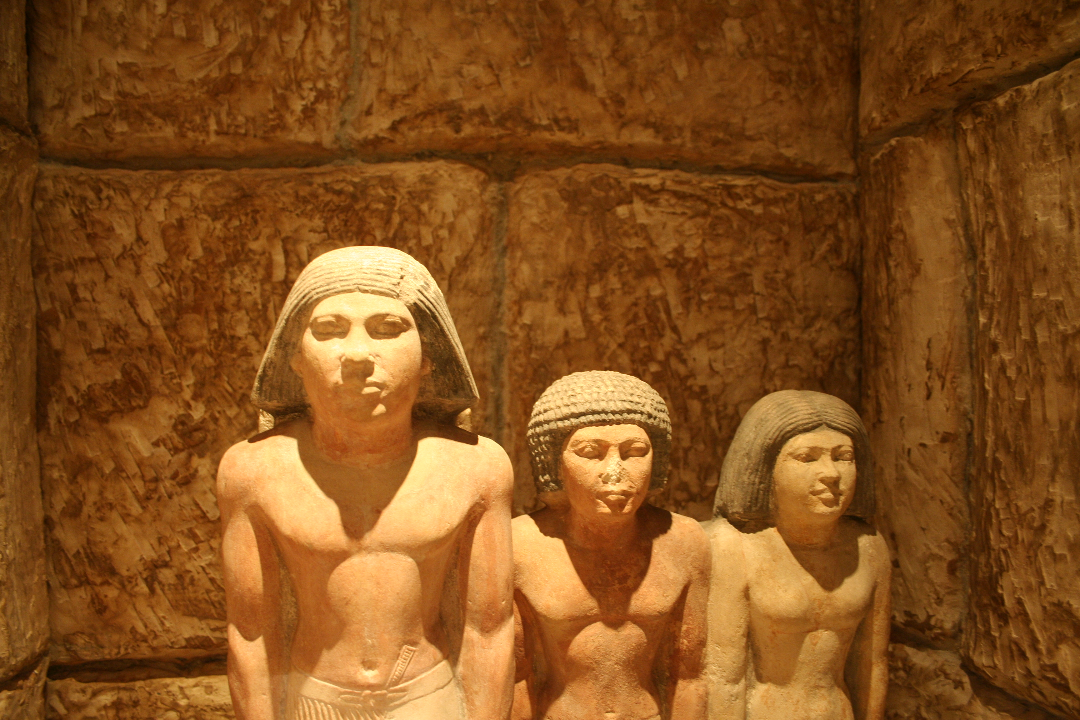 A Statue of Nikaukhnum and one of Nikaukhnum and his wife inside a reconstructed serdab; Giza, 5th or 6th dynasty